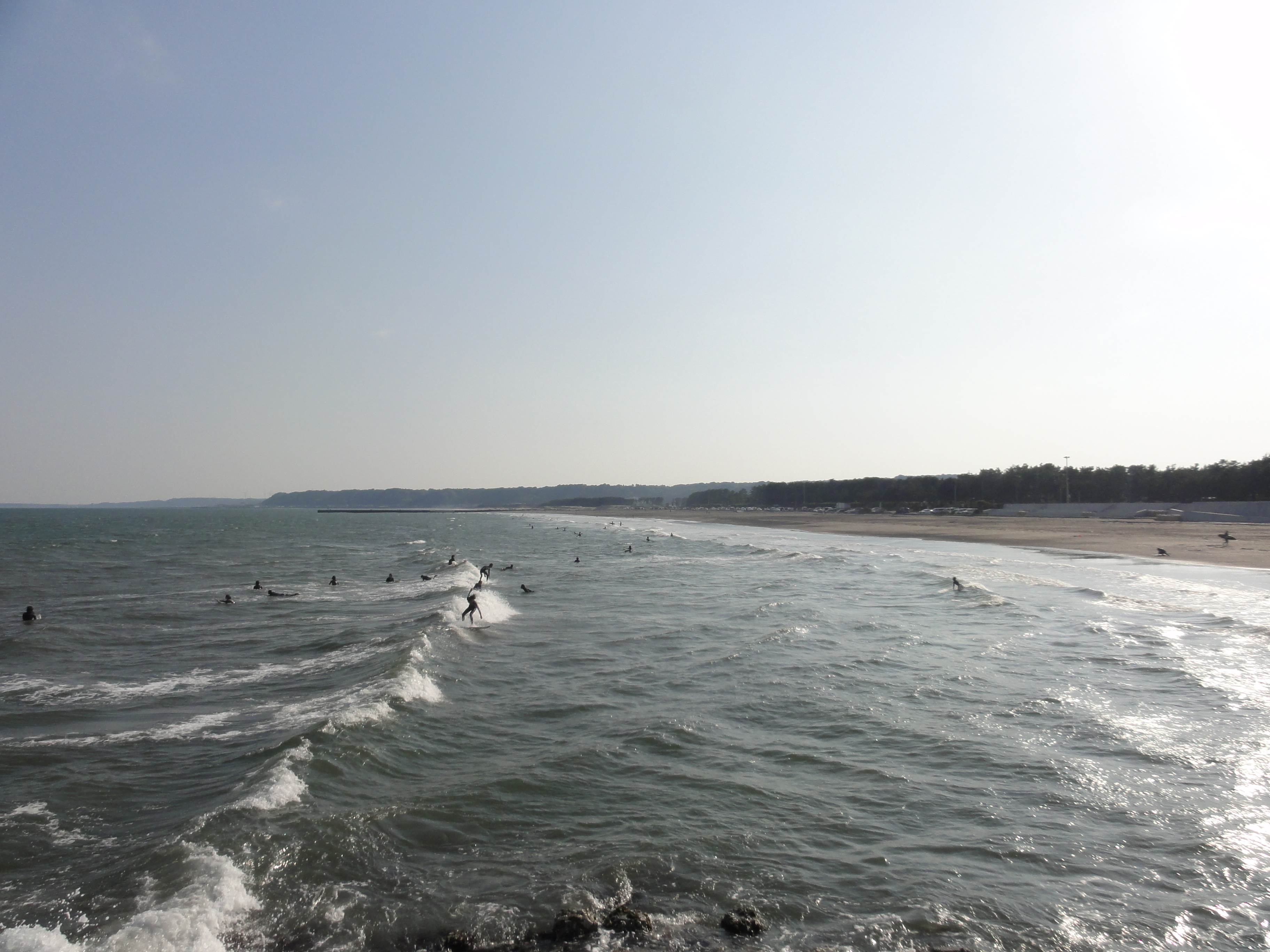 Shizunami Beach